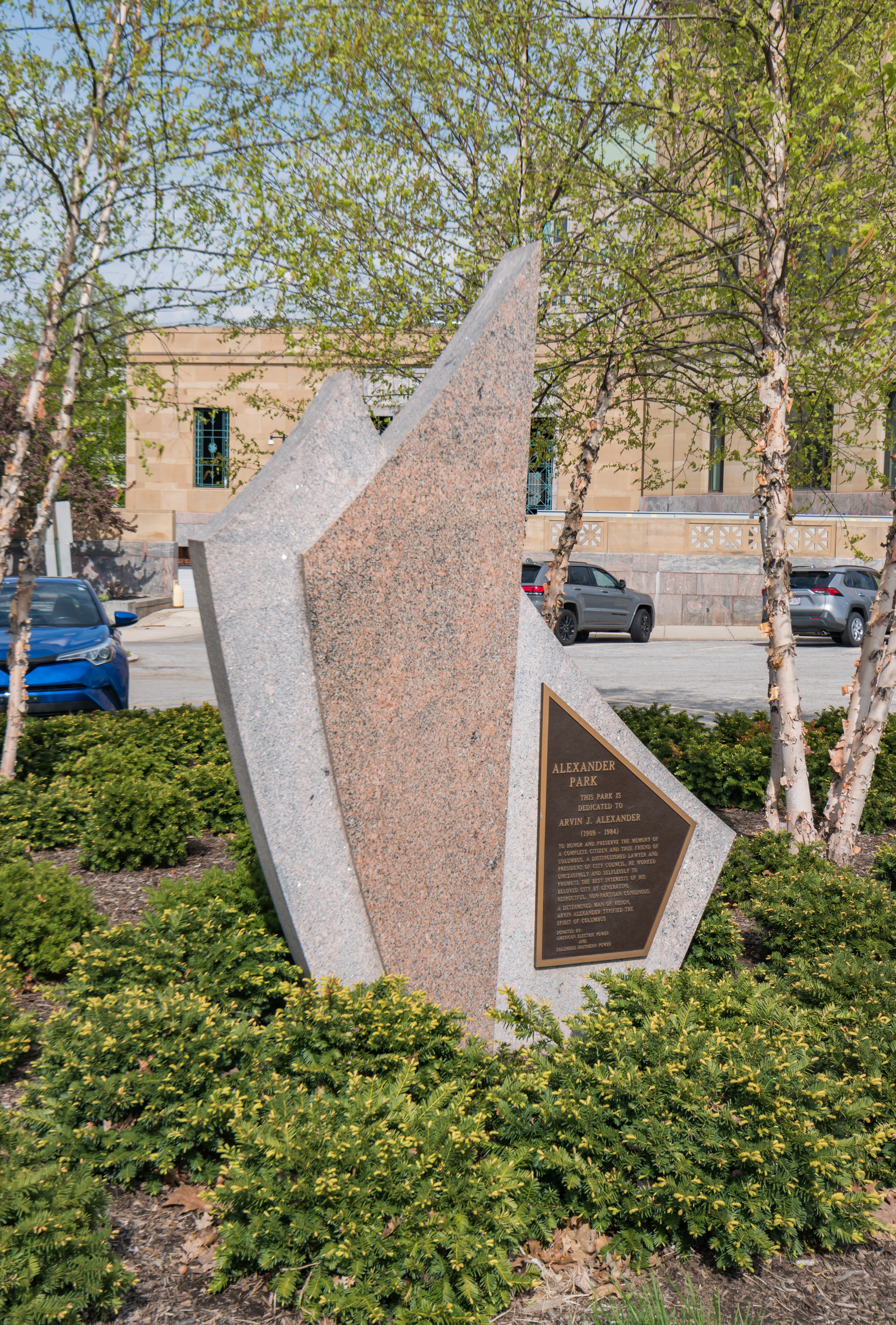 Alexander AEP Park